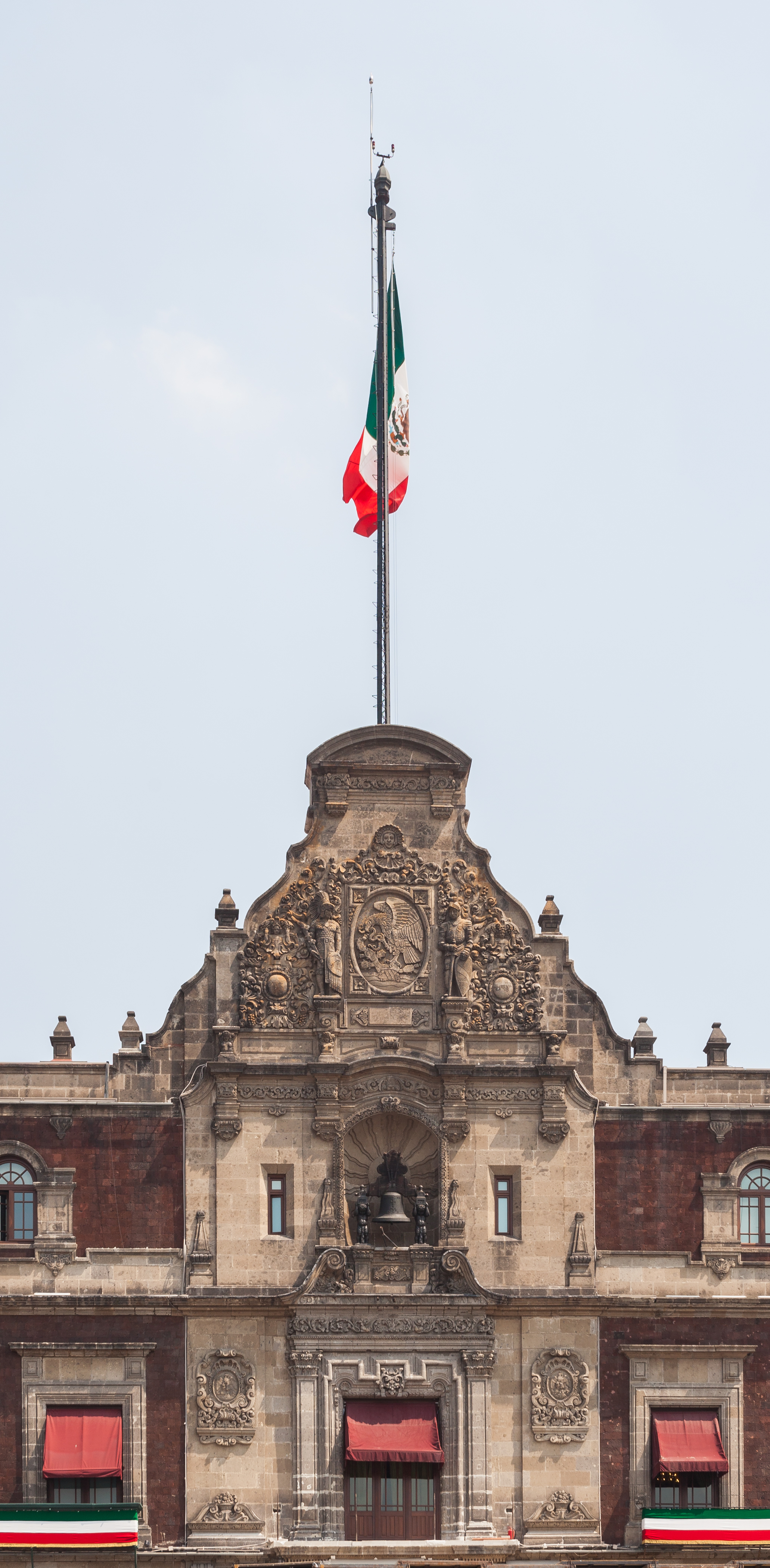 Main balcony of the National Palace, Mexico City, Mexico